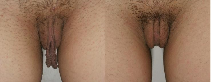 Labiaplasty with a clitoral hood reduction